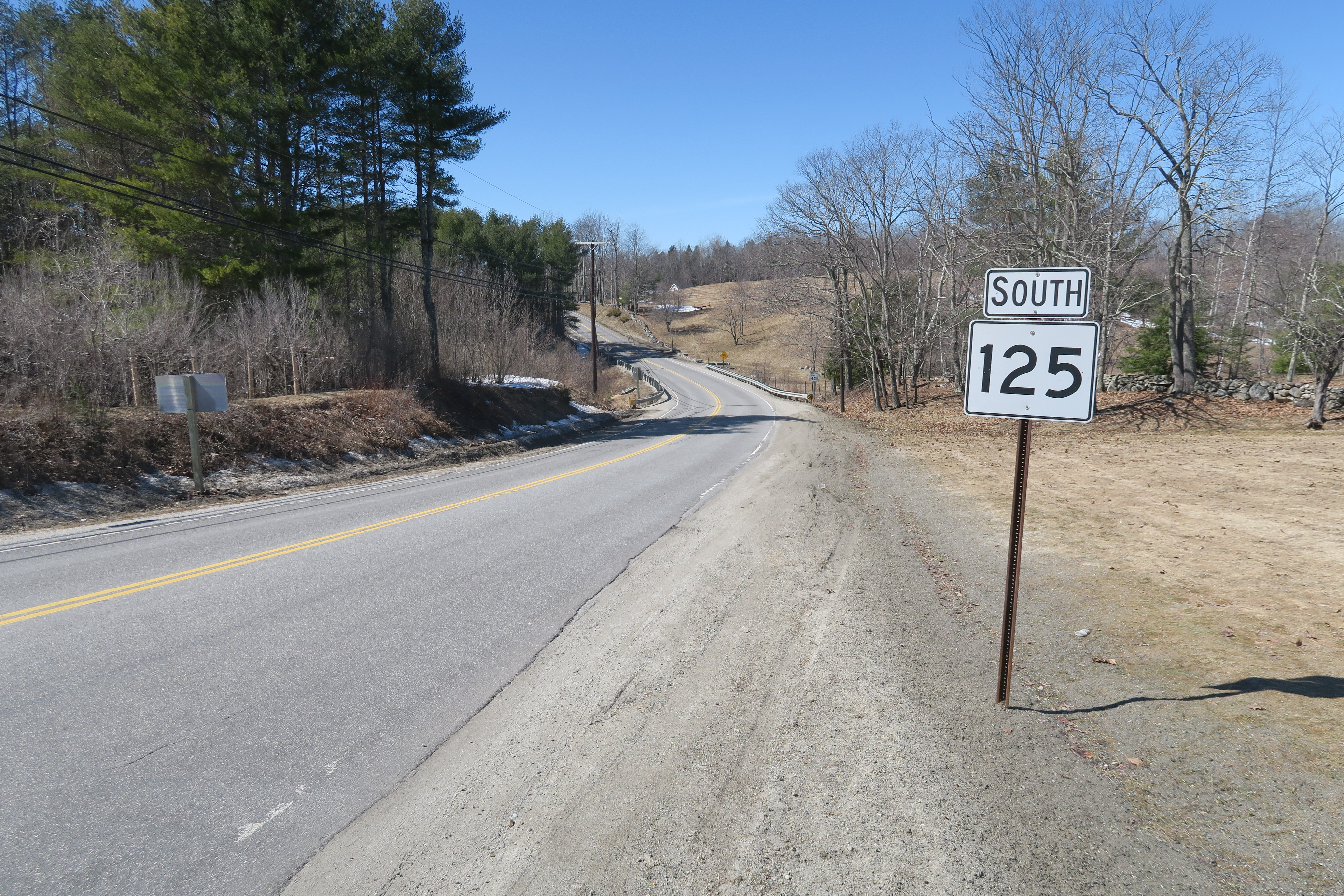 Maine Route 125 southbound, Bowdoin Maine